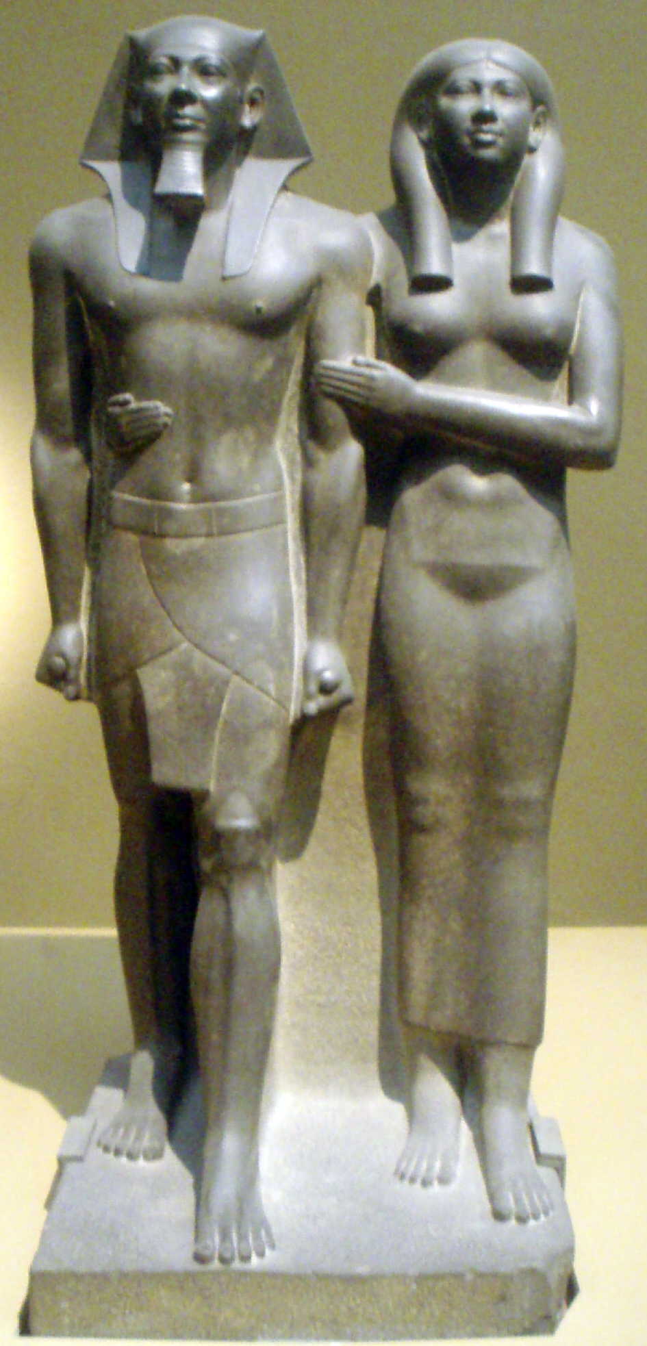 Statue of Menkaura (Mycerinos) and Queen Khamerernebty II. (Chamerernebti II.). From the Giza Valley Temple of Menkaura, made during his reign (circa 2548-2530 B.C.) Graywacke. Now residing at the Museum of Fine Arts, Boston. Museum Expedition 11.1738.